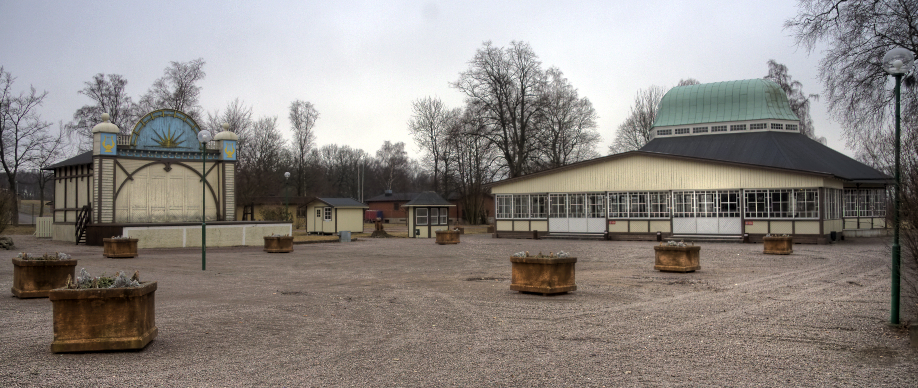 The folkpark in Billesholm, Scania, Sweden.